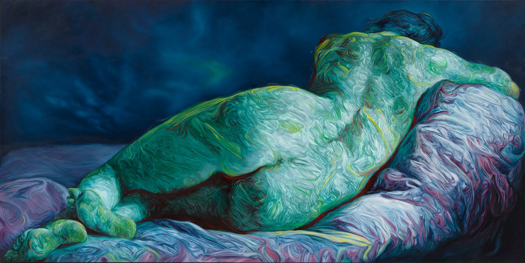 'On the Way to the Leisure Centre' (2017) Oil on panel 122 x 244 x 2.2 cm (48 1/8 x 96 1/8 x 7/8 in)